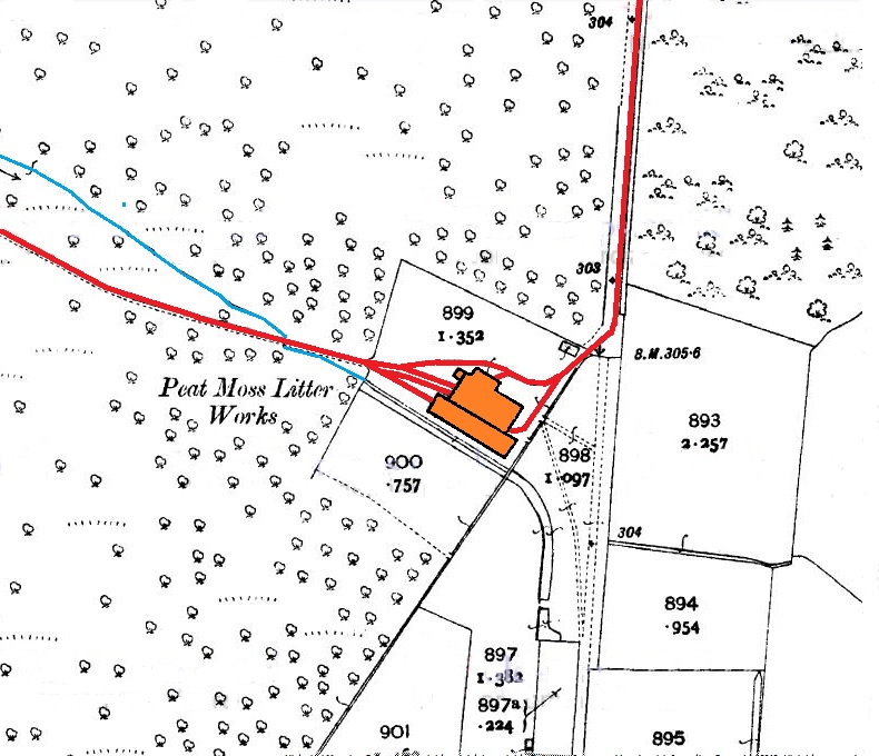 Tramways and Old Shed Yard Works on Fenn's and Whixall Mosses, based on the Ordnance Survey 1:2500 map, 1912. The mosses straddle the English/Welsh border.